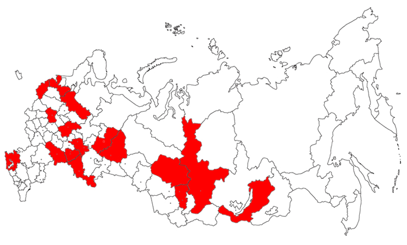 Project «La Sky»